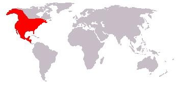 Coyote range